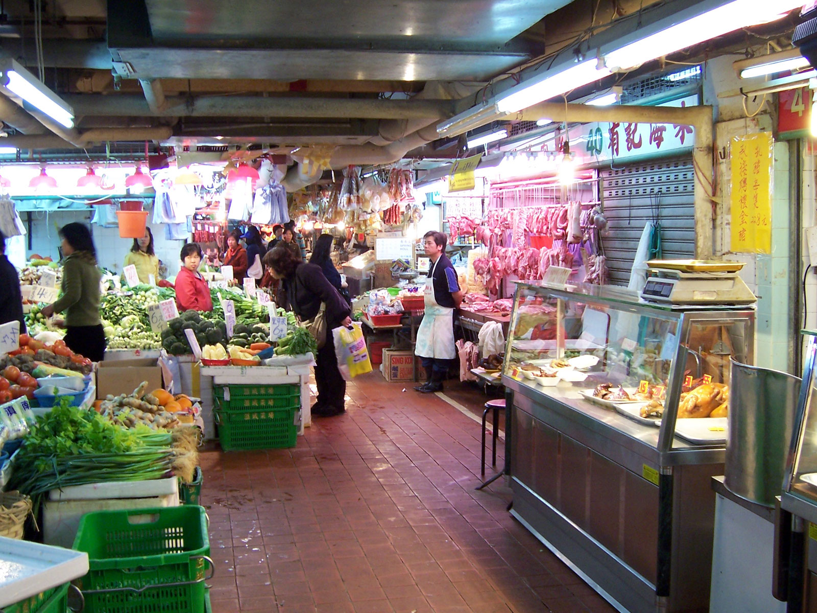 Assorted stalls at Sha Tin's City One. Taken by Enoch Lau on 30 December 2005. As a courtesy, please let me know if you alter this image or this image description page. Original filename was 100_0931.JPG.